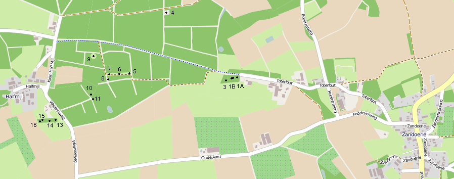 Tumuli of Toterfout-Halfmijl, Veldhoven, the Netherlands